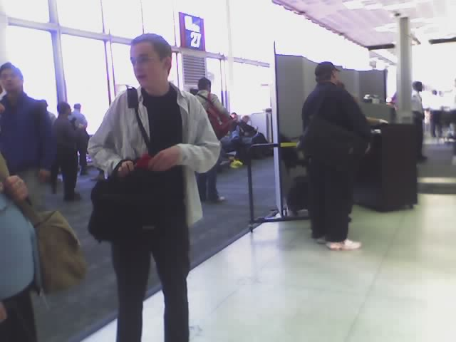 Kevin Covais at the John F. Kennedy International Airport, on his way to The Ellen DeGeneres Show.